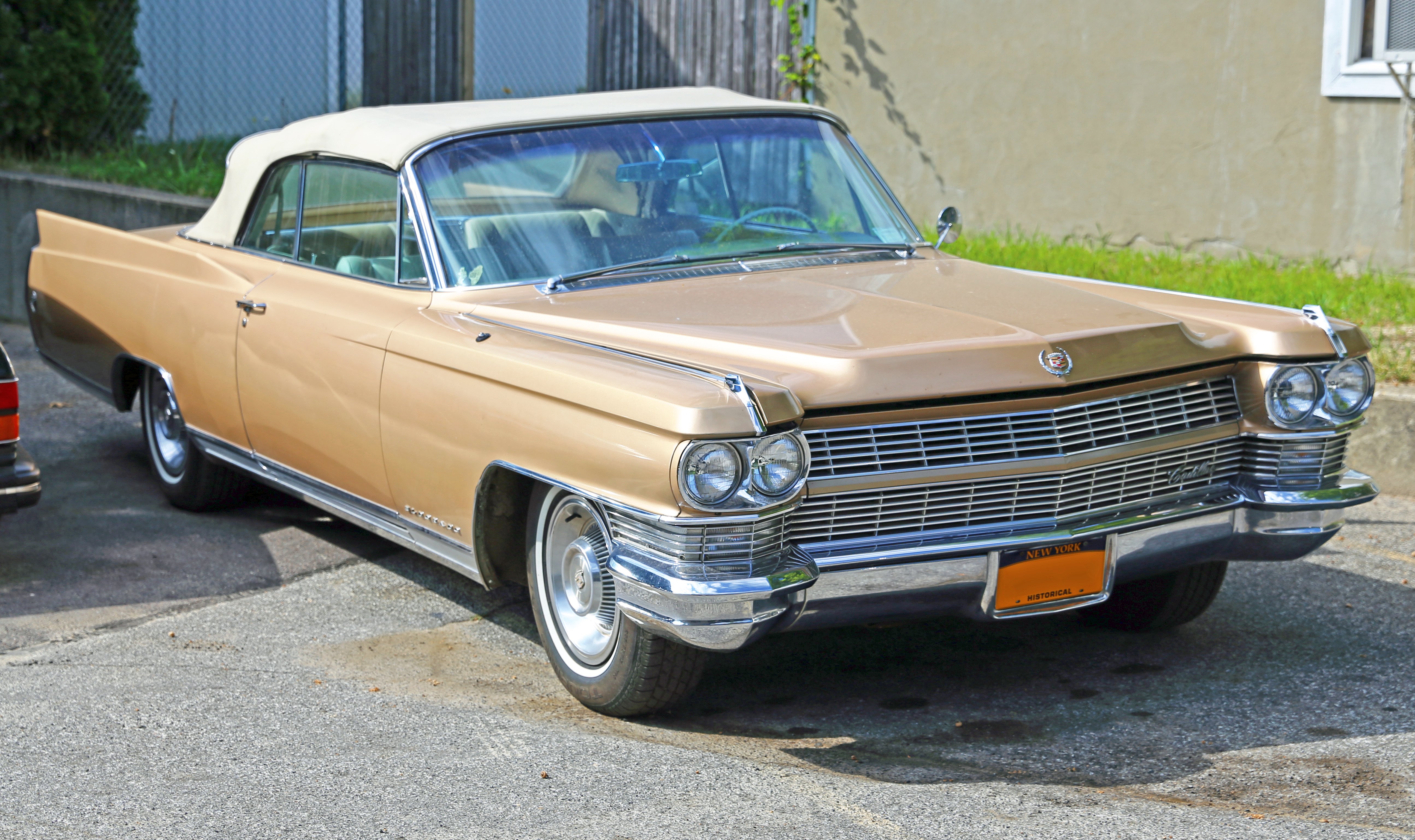 1964 Cadillac Eldorado Biarritz Convertible (model 6367), top up.